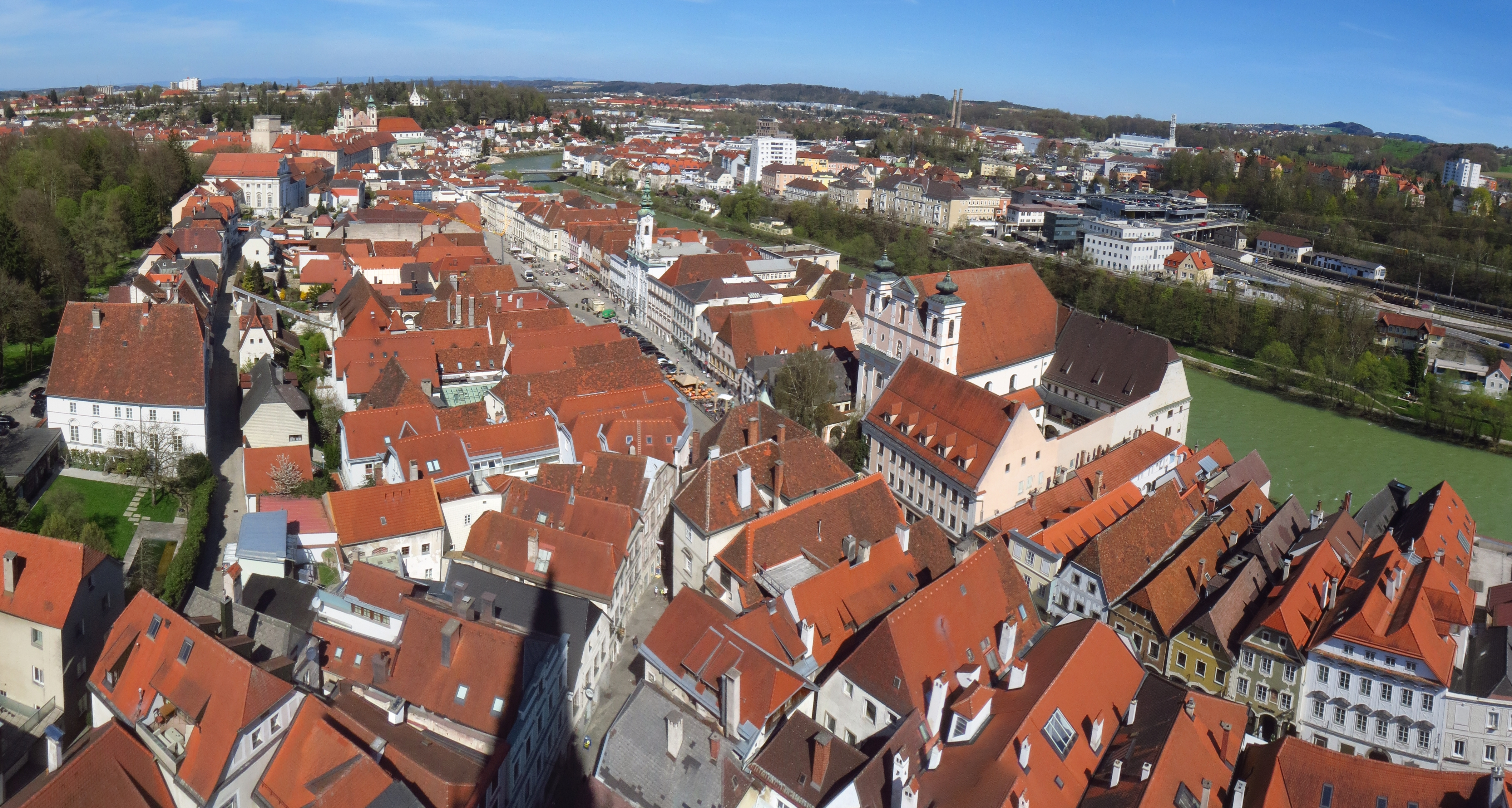 Panoramic view from the tower of the "Stadtpfarrkirche" to the north with the beautiful medieval town square